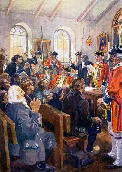 Painting of the Acadian Expulsion order being read by colonel Winslow in the parish church of Grand-Pré, Nova Scotia, Canada, 1755.